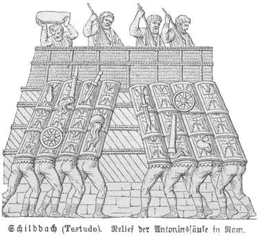 Testudo Roman military formation, from column of Marcus Aurelius, erroneously called column of Antoninus Pius in the source